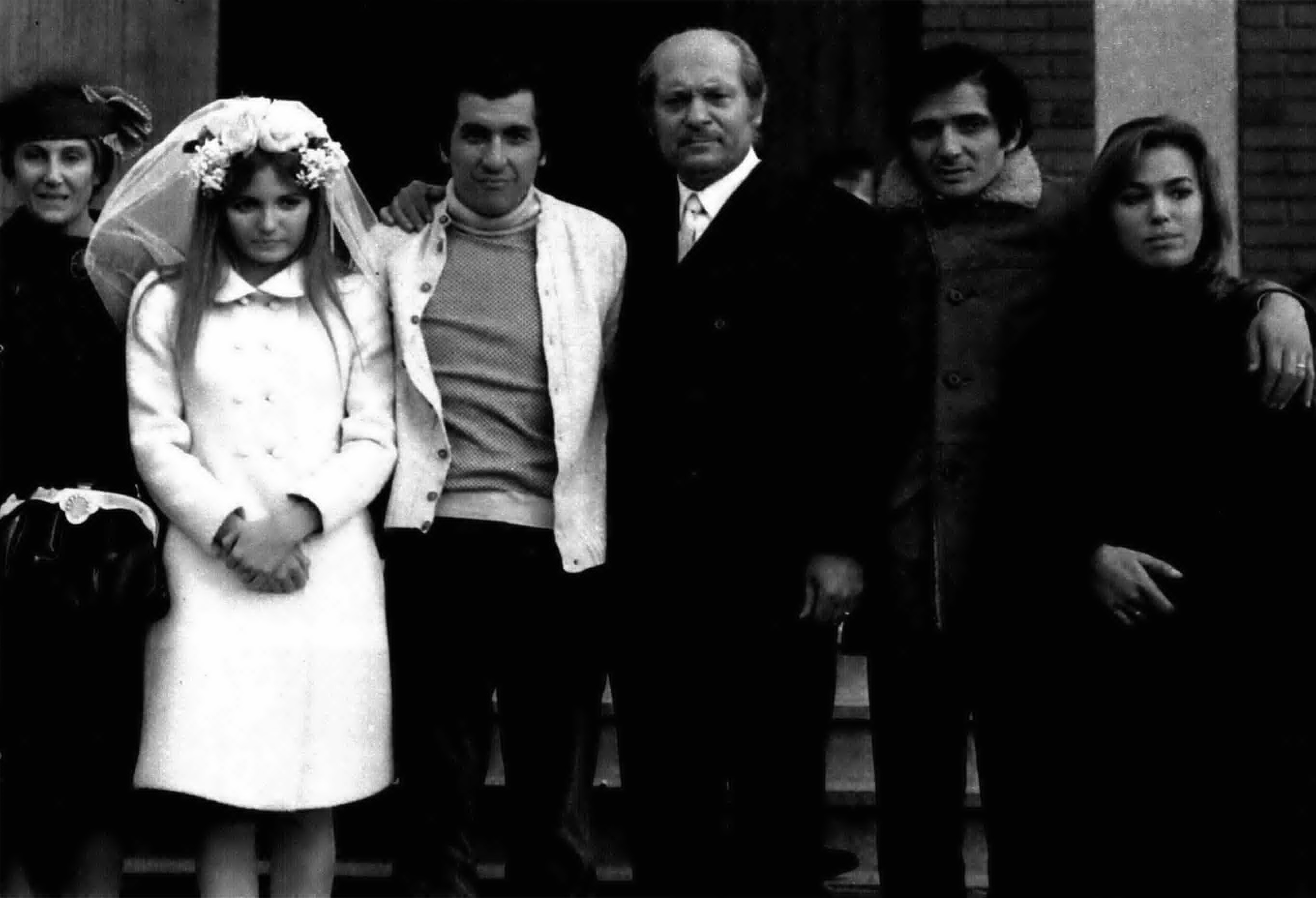 from left, Italian actresses Nella Bartoli and Micaela Esdra, director Salvatore Nocita, actors Turi Ferro, Bruno Cirino and Francesca De Seta